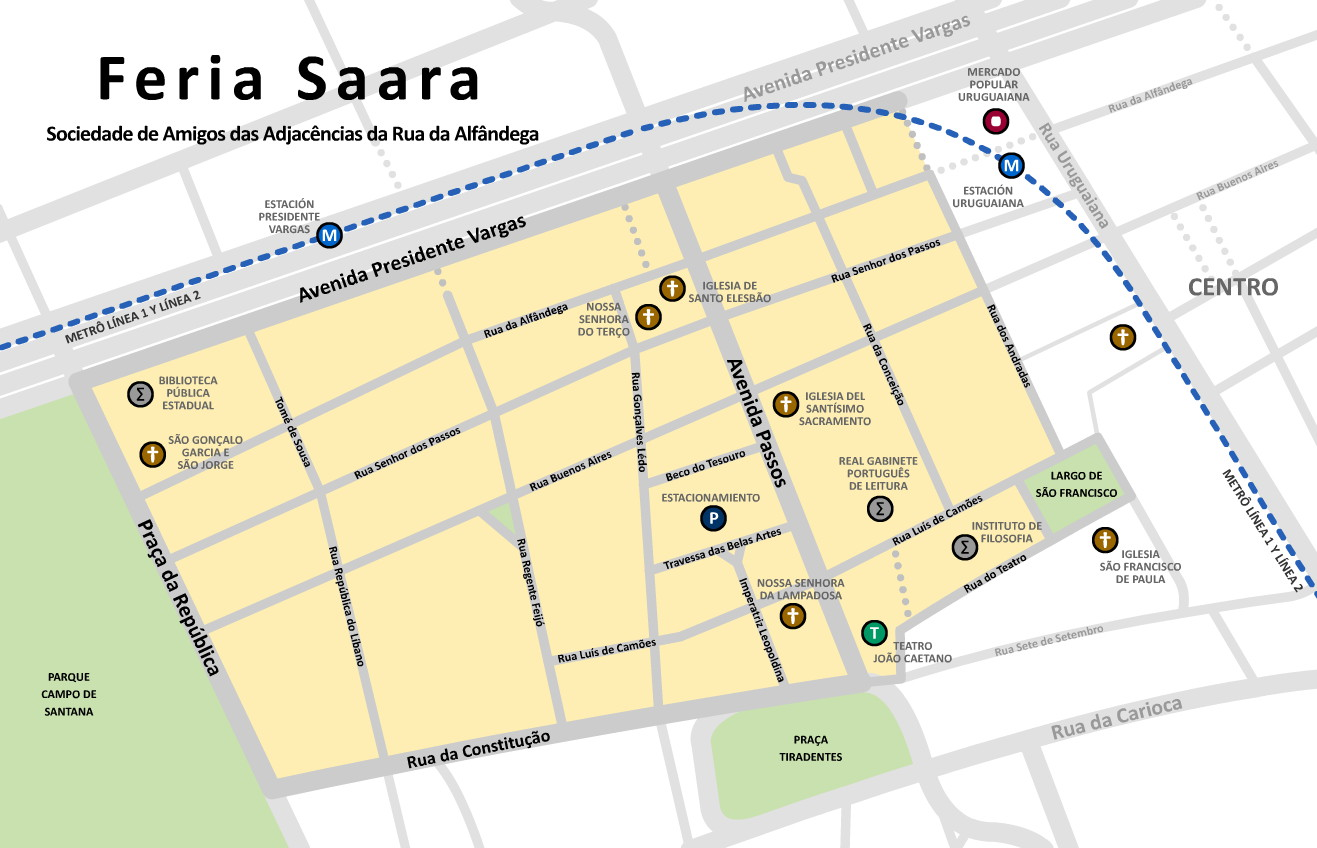 map of Saara Market, Rio de Janeiro, Brazil